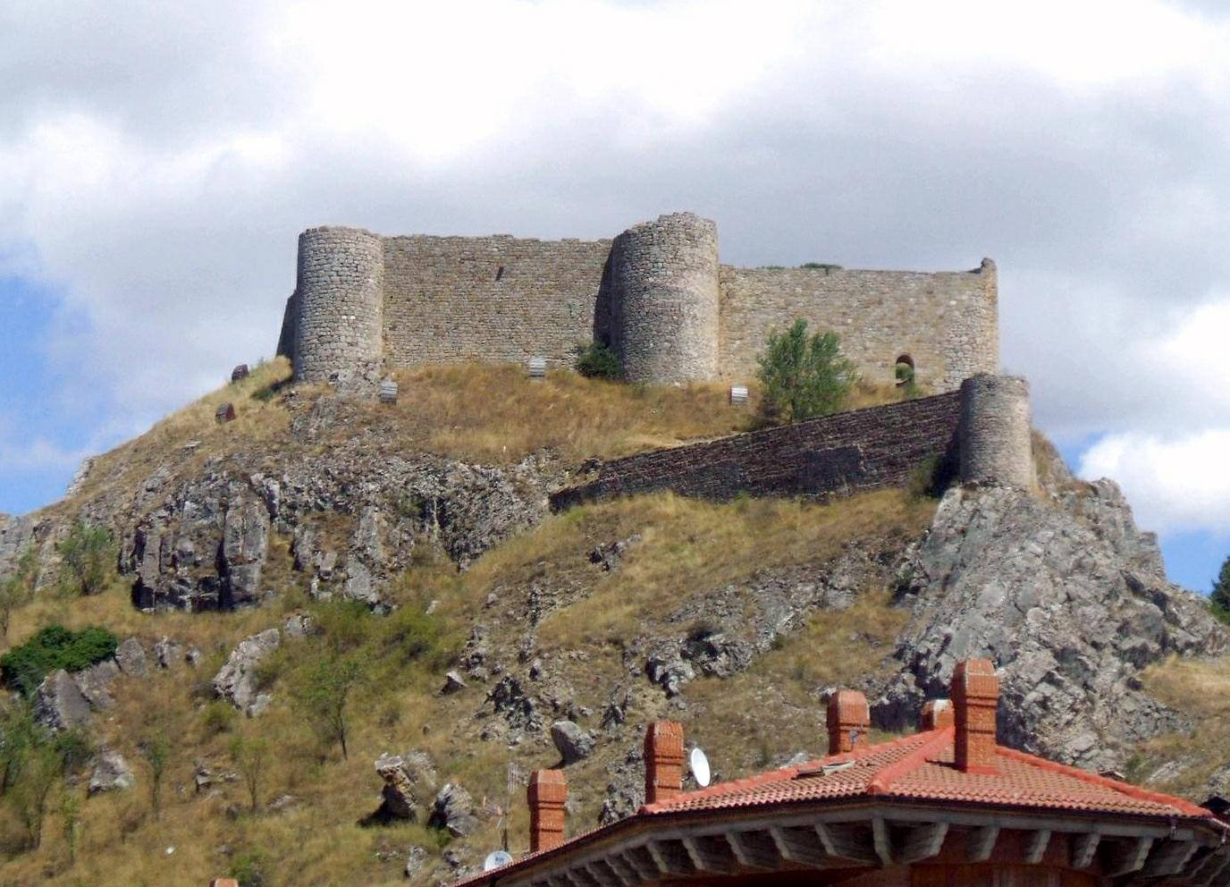 Castillo de Aguilar de Campoo (Palencia, Castilla y León, España)